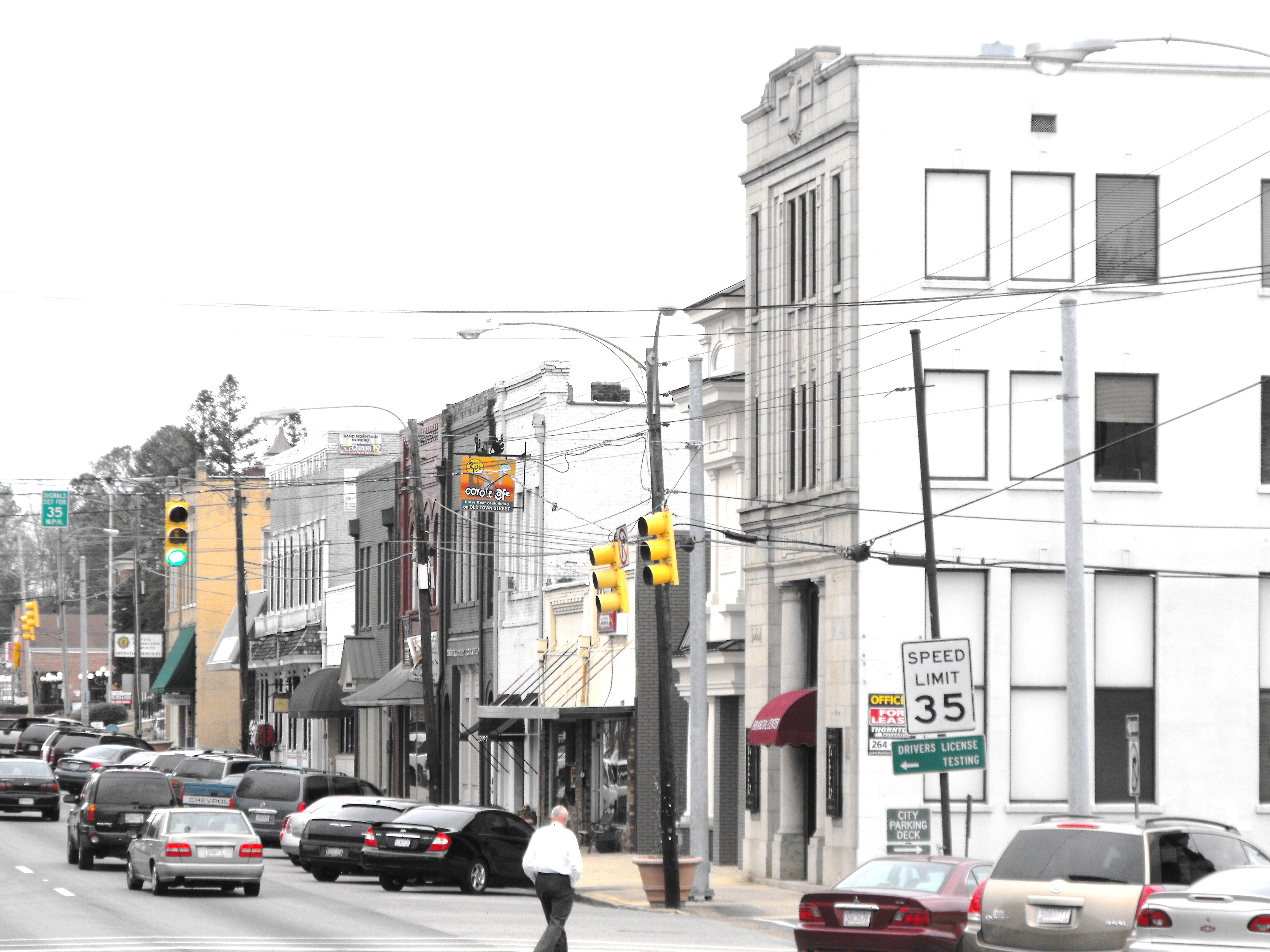 Buildings on Gunter Avenue in Guntersville, Alabama, part of the National Register of Historic Places-listed Downtown Guntersville Historic District